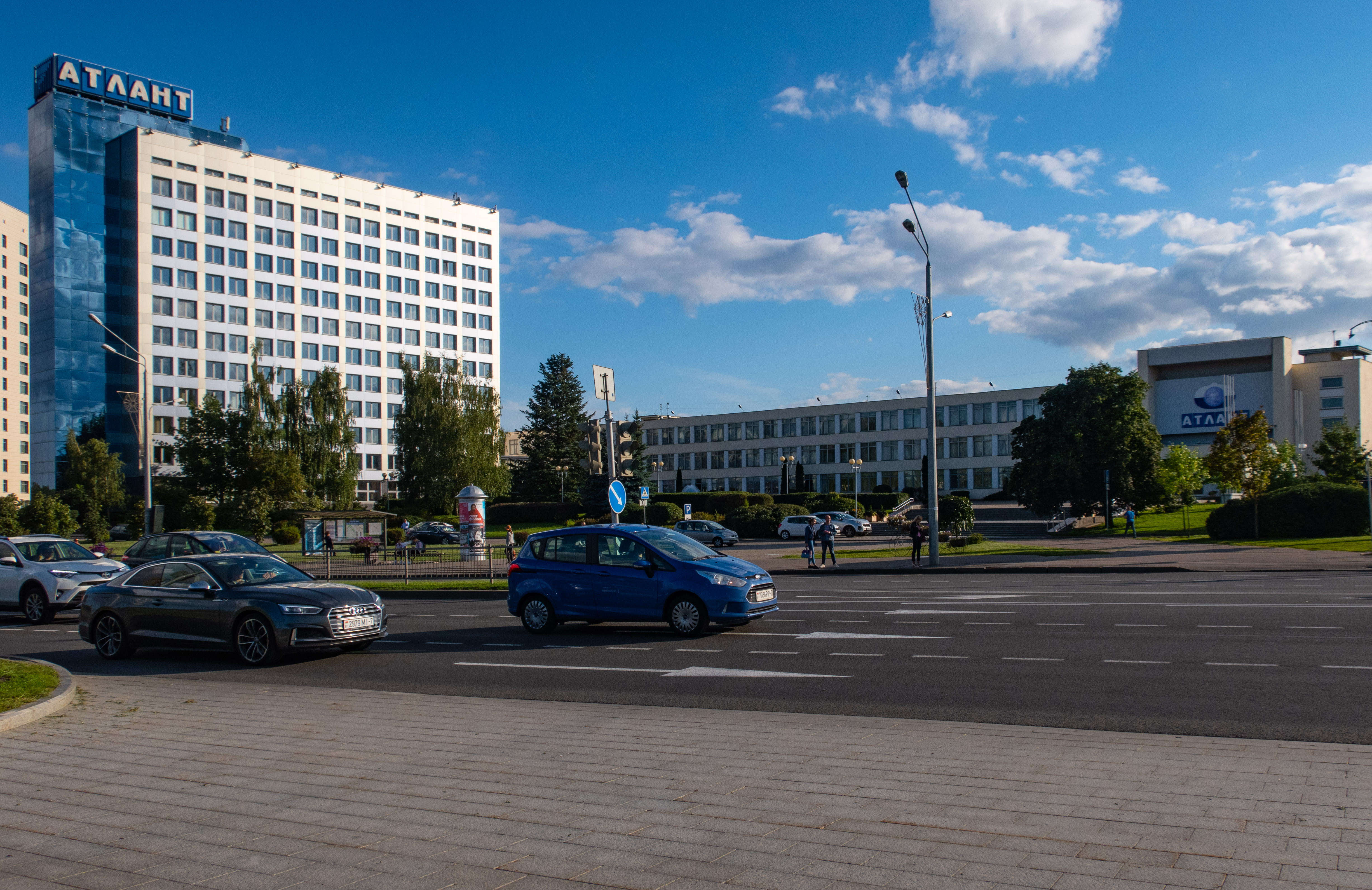 Pieramožcaŭ avenue. "Atlant" refrigerators factory. Minsk, Belarus